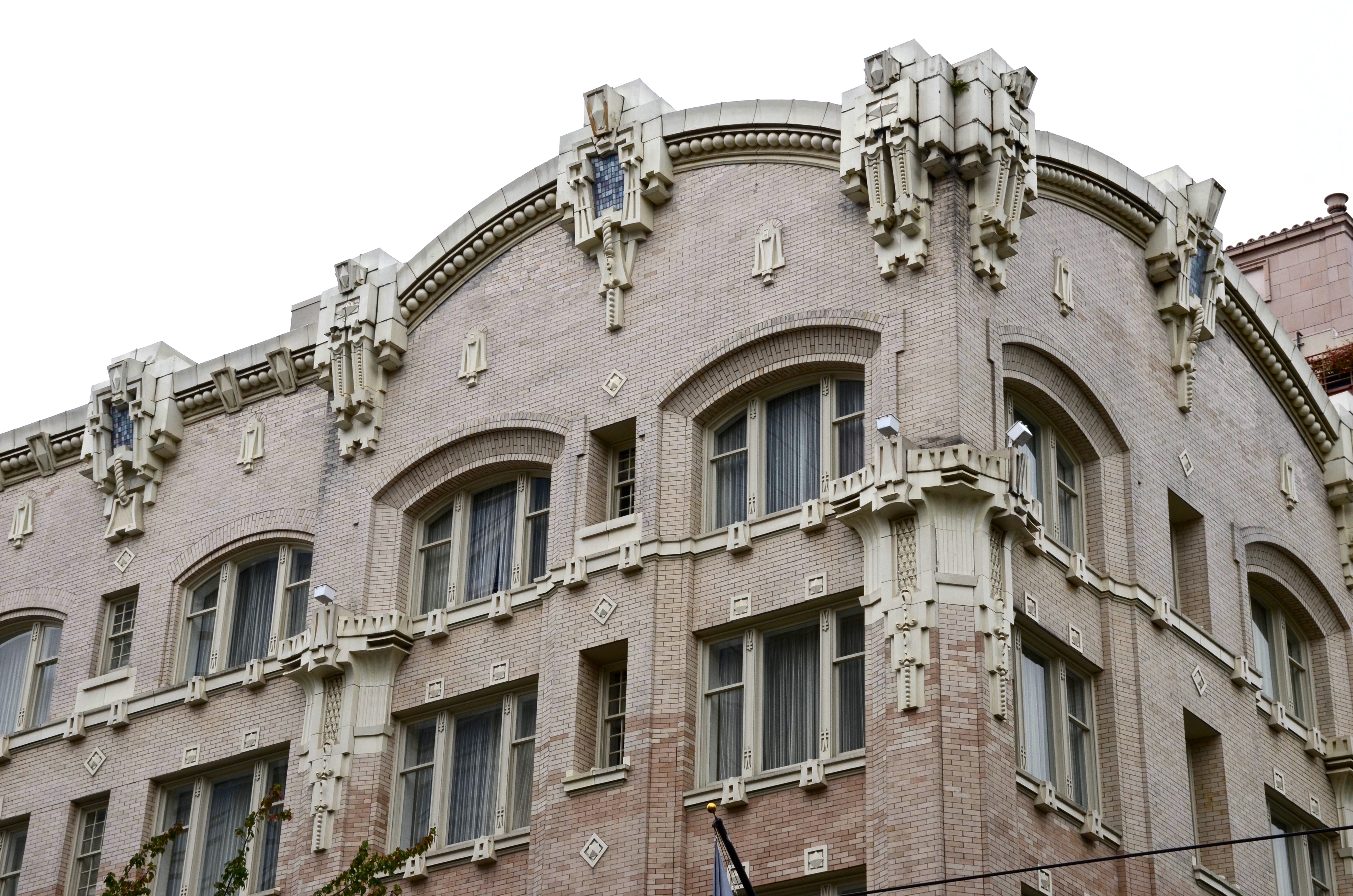 Upper floors exterior detail of the Sentinel Hotel's east wing, built in 1909 as the Seward Hotel (and renamed the Governor Hotel in 1931), at the corner of 10th & Alder, in downtown Portland, Oregon. The new name given to the Governor Hotel in 2014 was inspired by the highly stylized "sentinel" figures in terracotta along the building's roof.